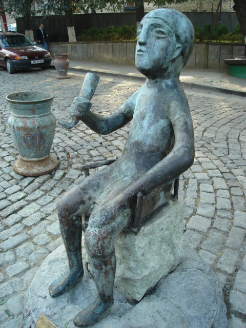 The "Tamada" sculpture in Tbilisi modeled on an ancient Colchian statuette found at Vani, Georgia.